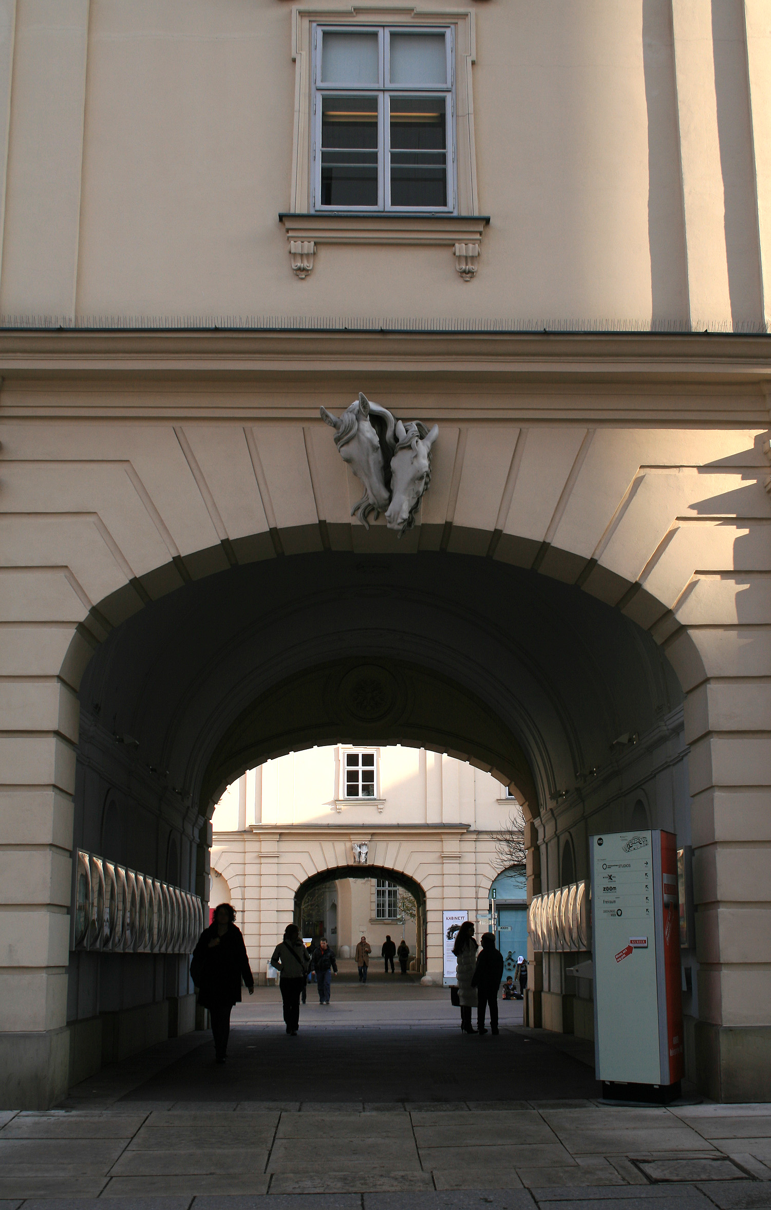 Austria, Vienna, Museumsquartier